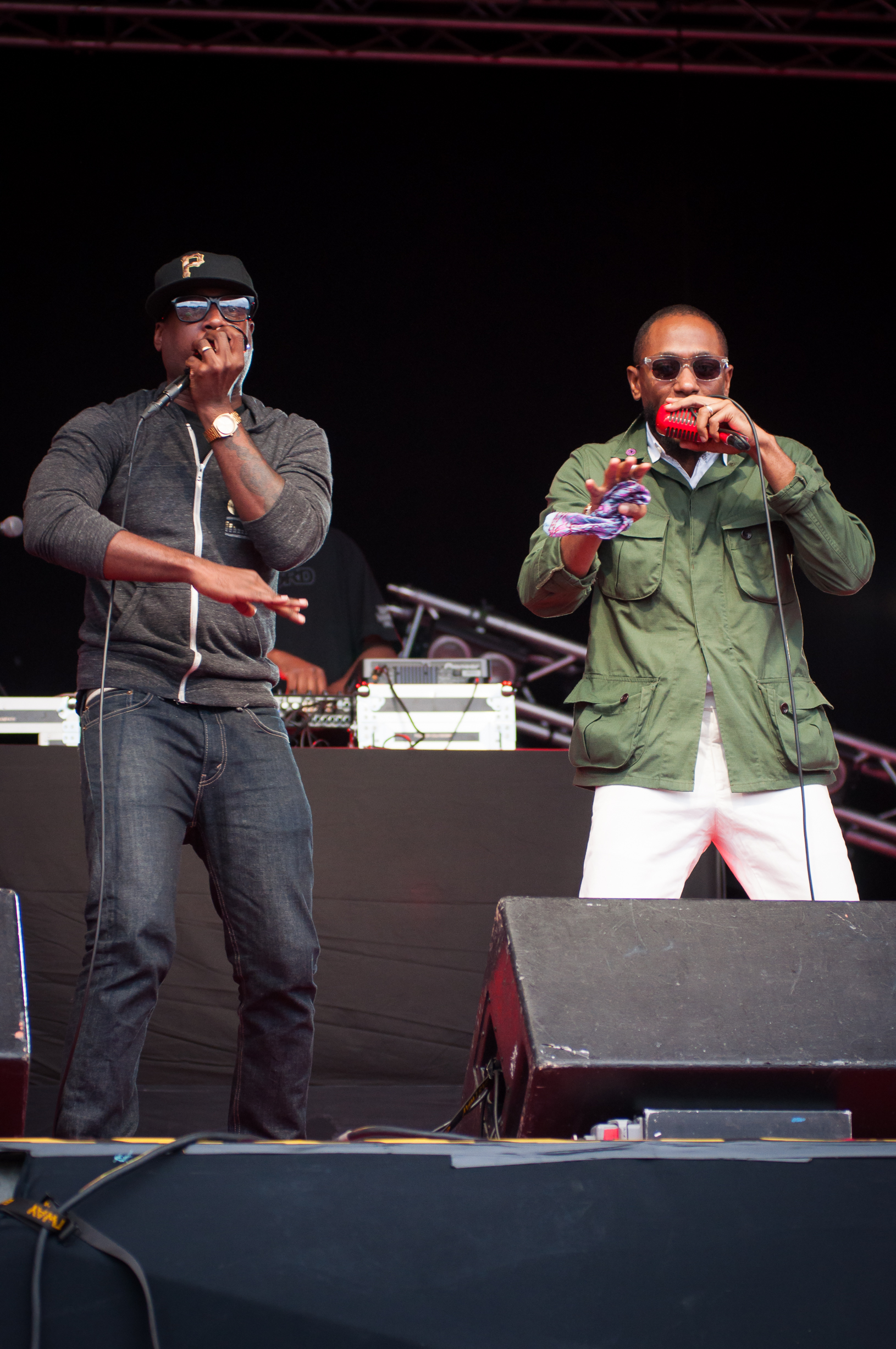 American hip hop group Black Star (Talib Kweli (left) and Mos Def) performing at the 2012 Ilosaarirock Festival in Joensuu, Finland.